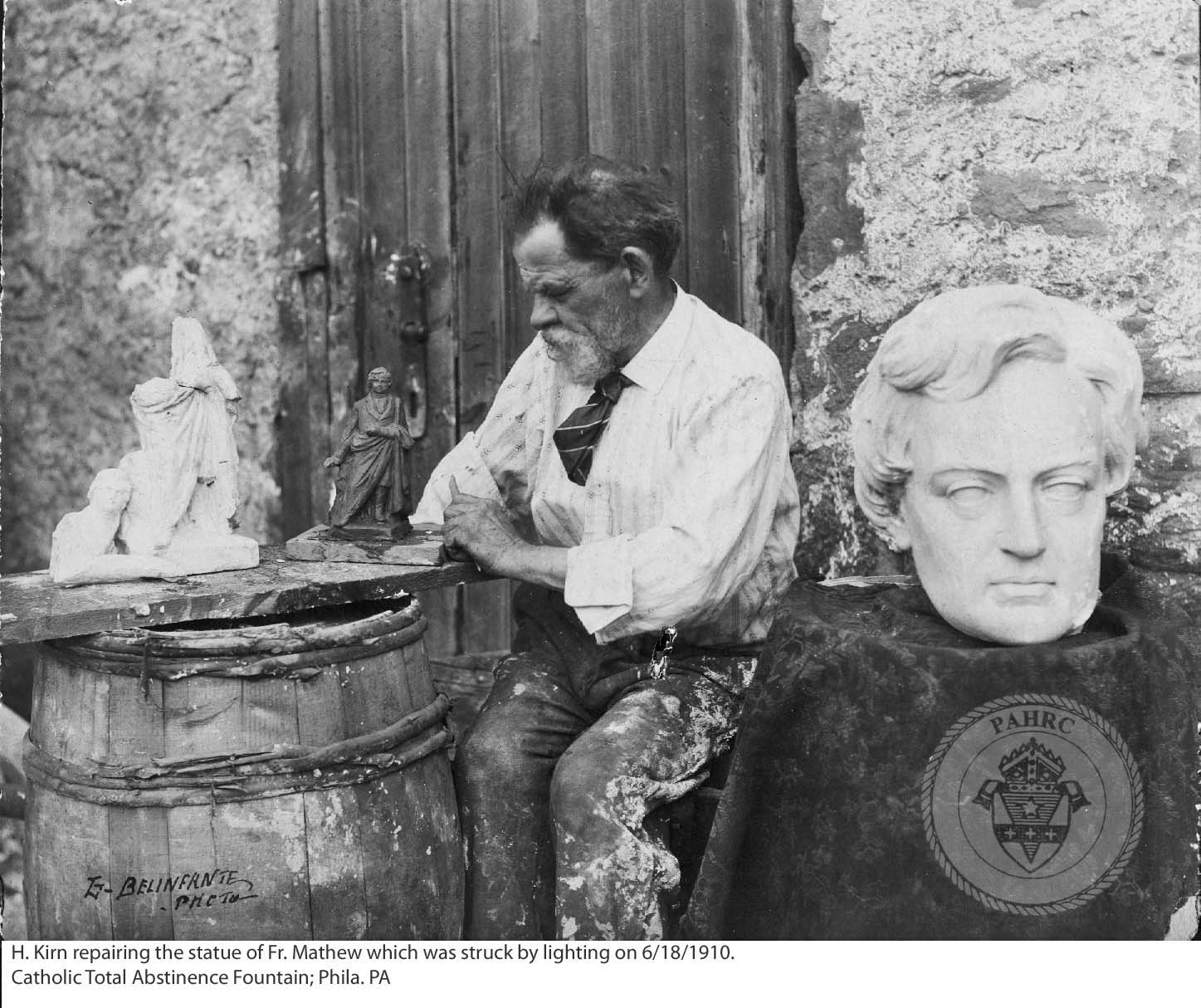 Repairing the statue of Fr. Matthew which was struck by lighting 1910. Catholic Total Abstinence Union Fountain